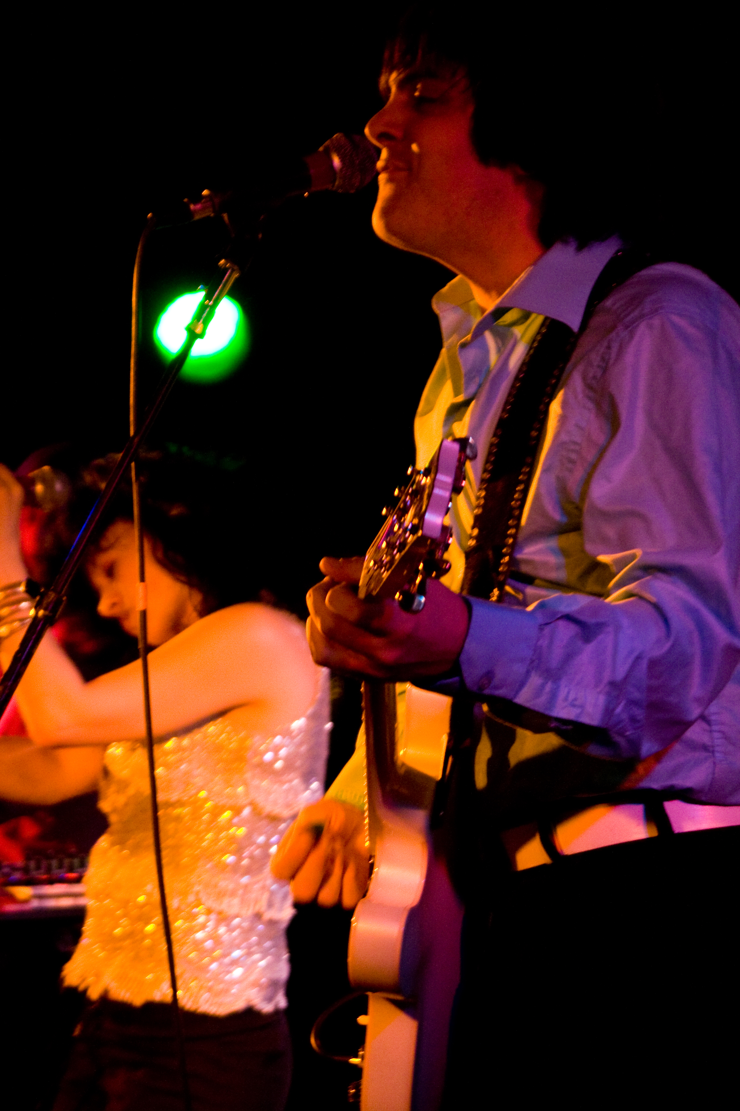 Photo of Orion and Linda of The Orion Experience at "The Break"